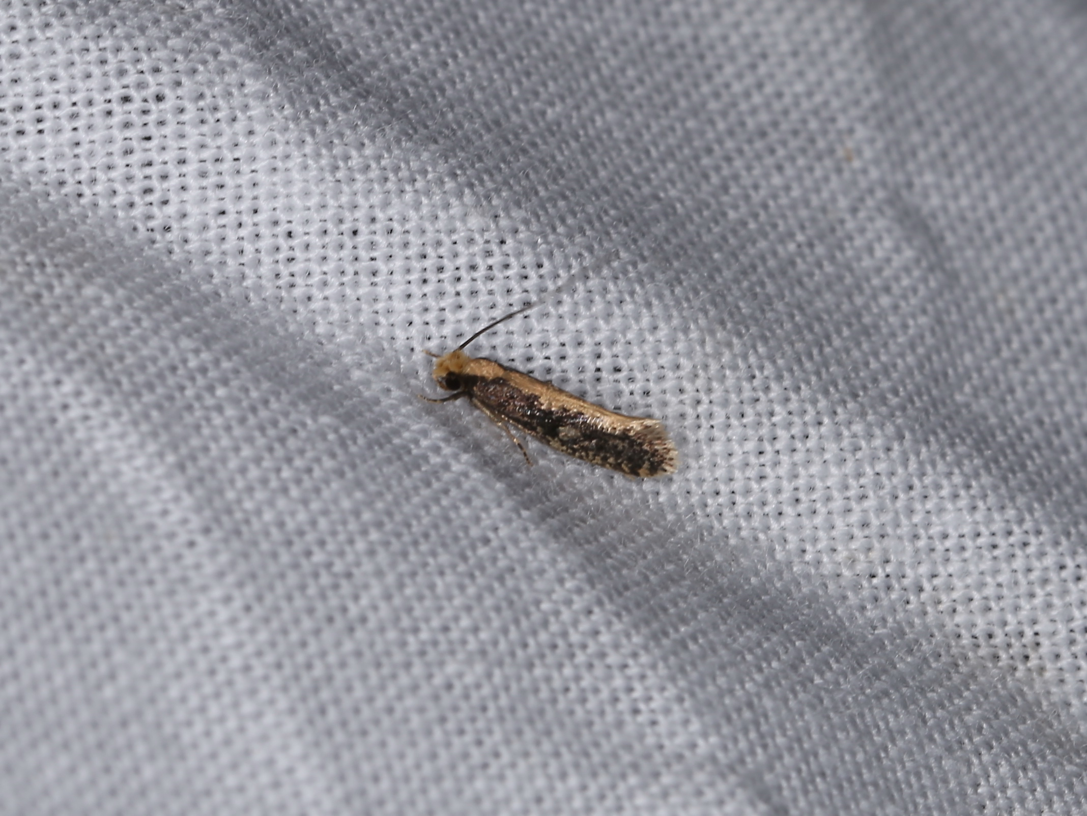 Monopis crocicapitella (Clemens, 1859), to actinic light, Walton-on-the-Naze, Essex, UK, 3 September 2017